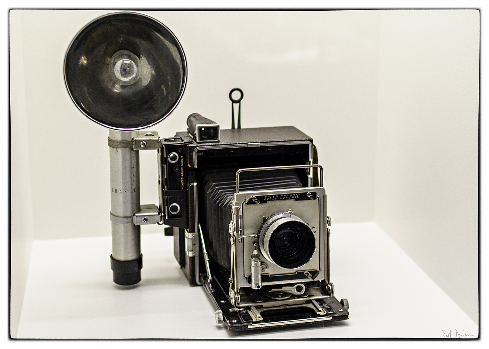 At the LACMA exhibit